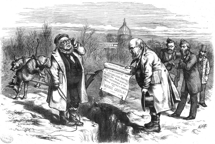 Horace Greeley as farmer receiving from himself as newspaper editor the Republican and Democratic nominations for president. Carl Schurz, Reuben Fenton and Jay Gould look on.